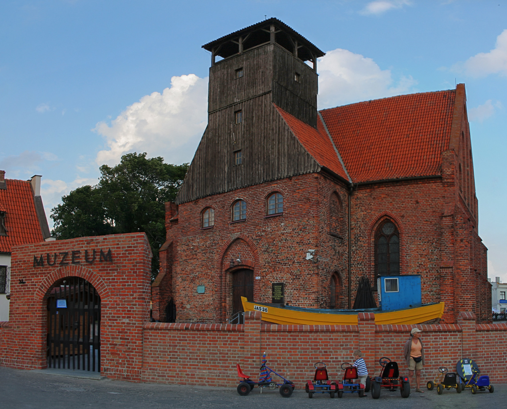 Museum of fishery in Hel.